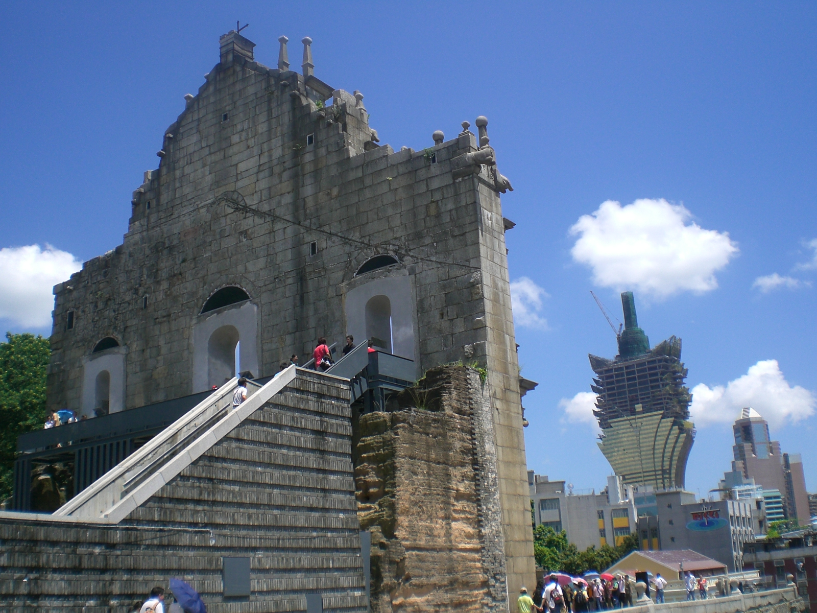 大三巴牌坊, Cathedral of Saint Paul in Macau and 新葡京（Grand Lisboa）. Photo author= Mo707